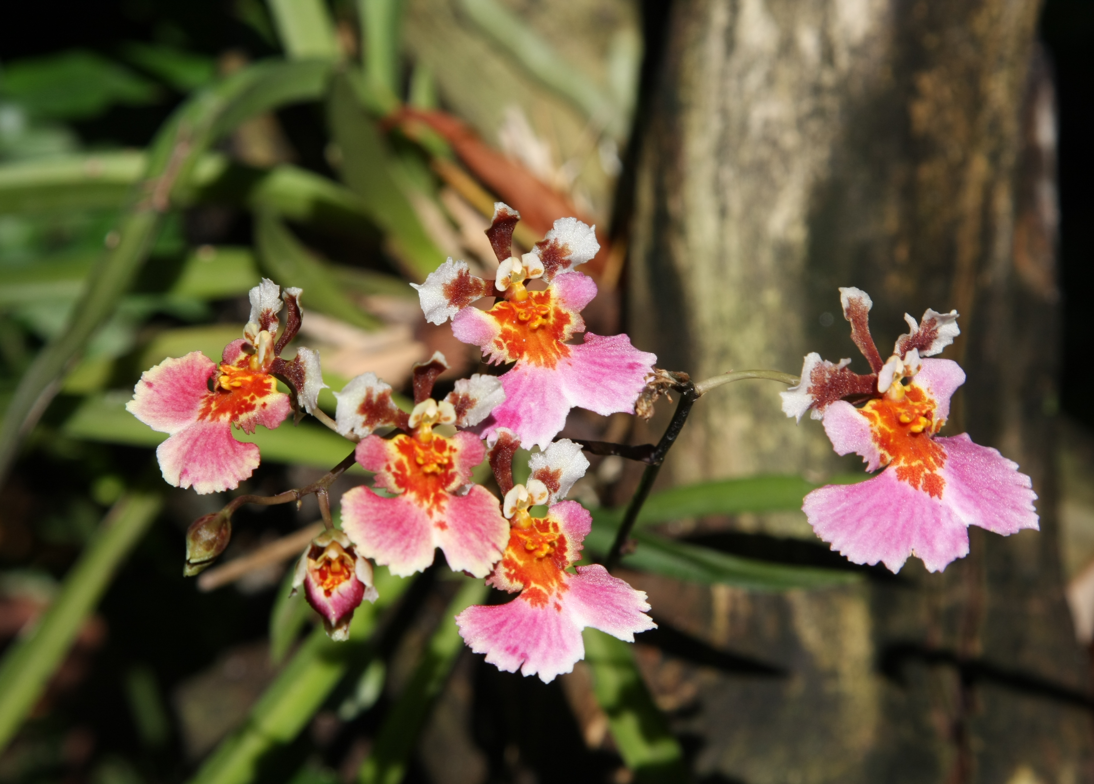 Tolumnia cultivar 'Kayster x Barbie' in a garden in south east Florida.